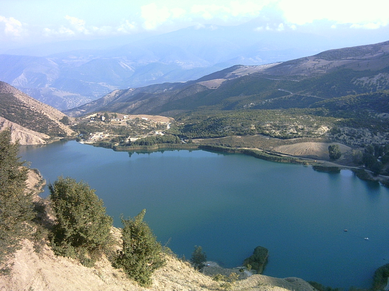 Valasht lake general view, Kelardasht, Mazandaran Province, Iran